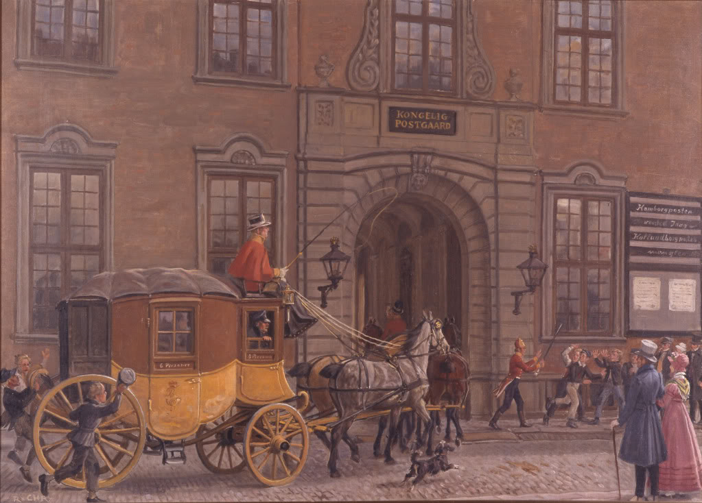 The mail coach outside Postgården in Købmagergade, Copenhagen, Denmark